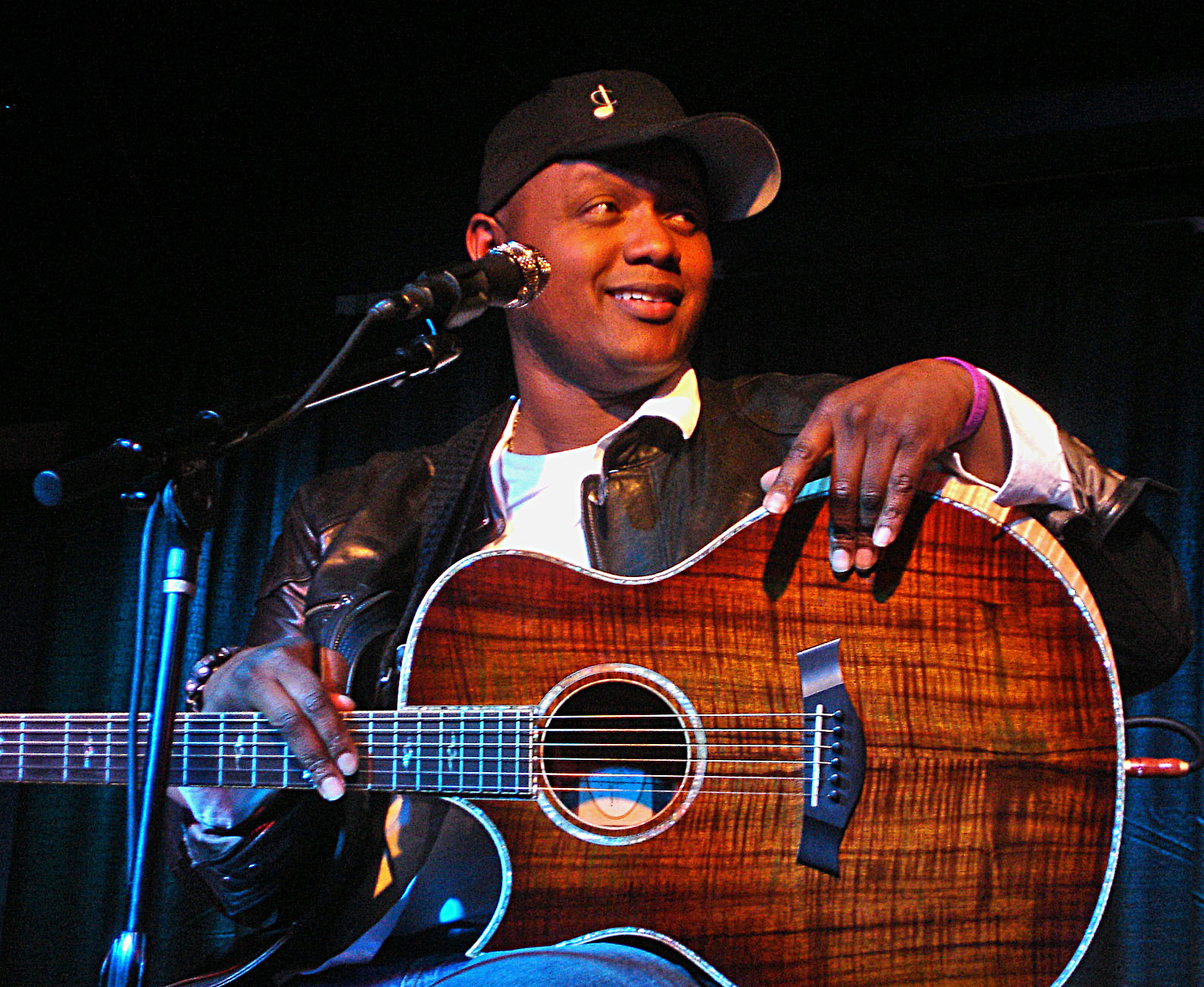 Image of American singer Javier Colon in December 2014